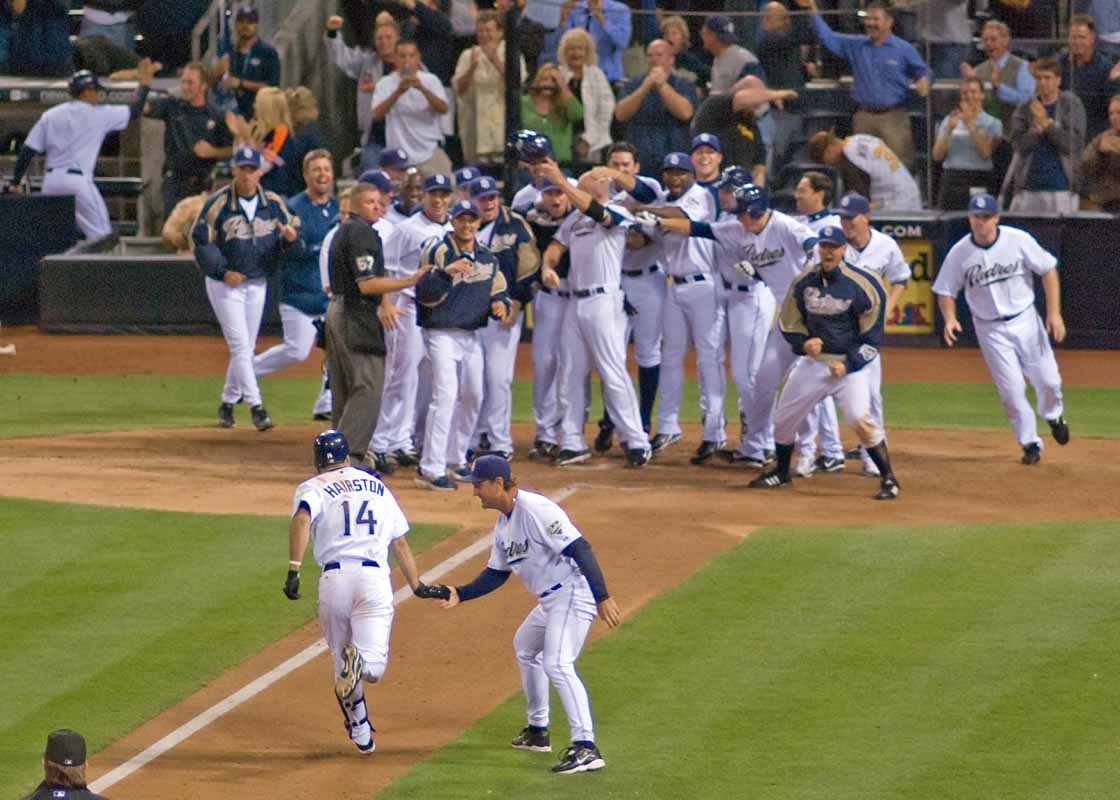 Scott Hairston rounding the bases after hitting a 3-run walk-off home run for the Padres in 2007. (Box score from ESPN)